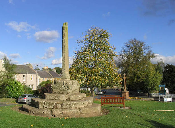 Ancrum Market Cross This late 16th century cross is situated on the village green. The head is missing from the stone shaft. Behind is the war memorial, erected in 1920, in the form of a market cross in red sandstone.